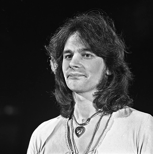 Colin Blunstone in AVRO's TopPop (Dutch television show) in 1973